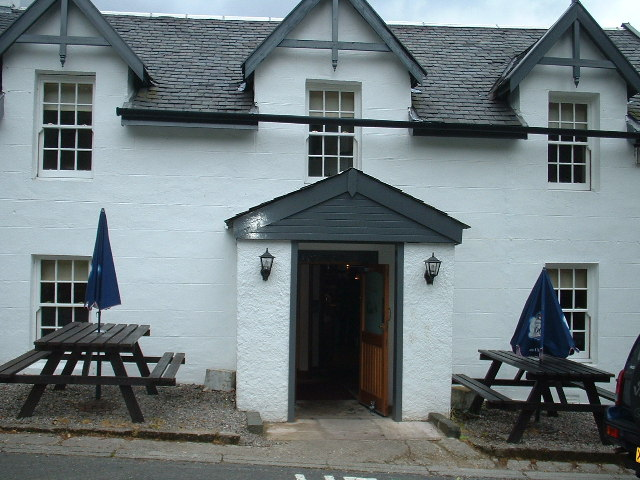 Whistlefields Inn, Loch Eck. Over the hill from Ardentinny.